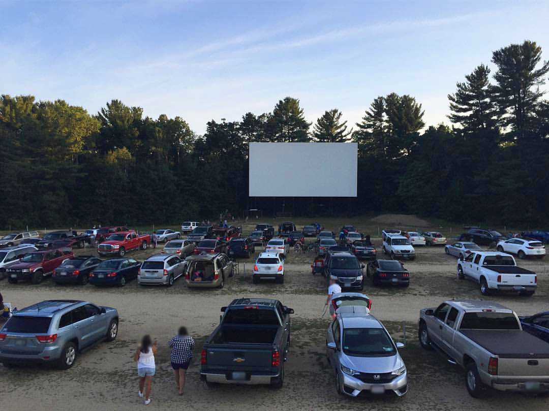 Milford Drive-In Theater at dusk.